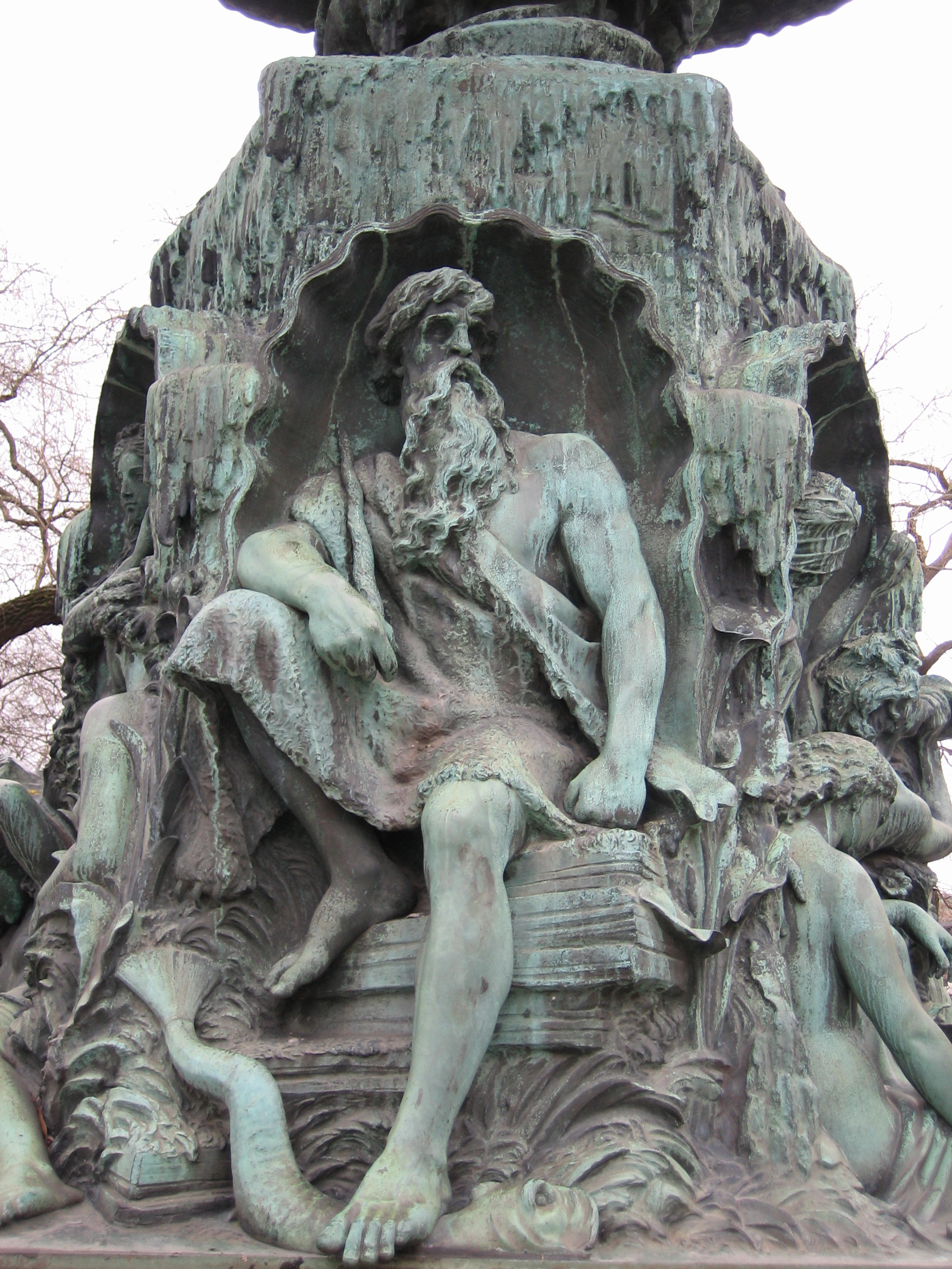 Detail of Molin's fontain in Stockholm, Sweden